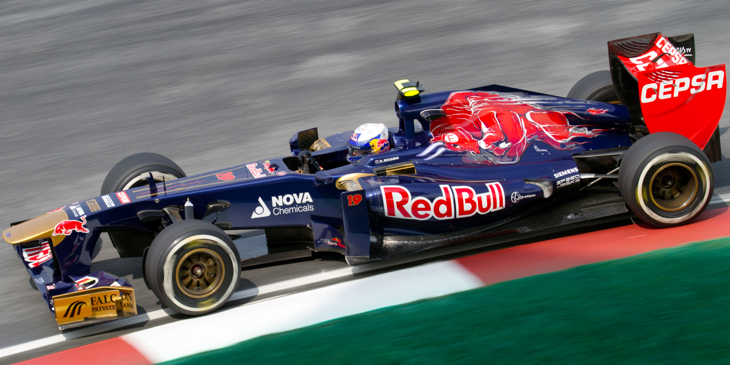 Formula One 2013 Rd.2 Malaysian GP: Daniel Ricciardo (Toro Rosso) during the second practice session on Friday.